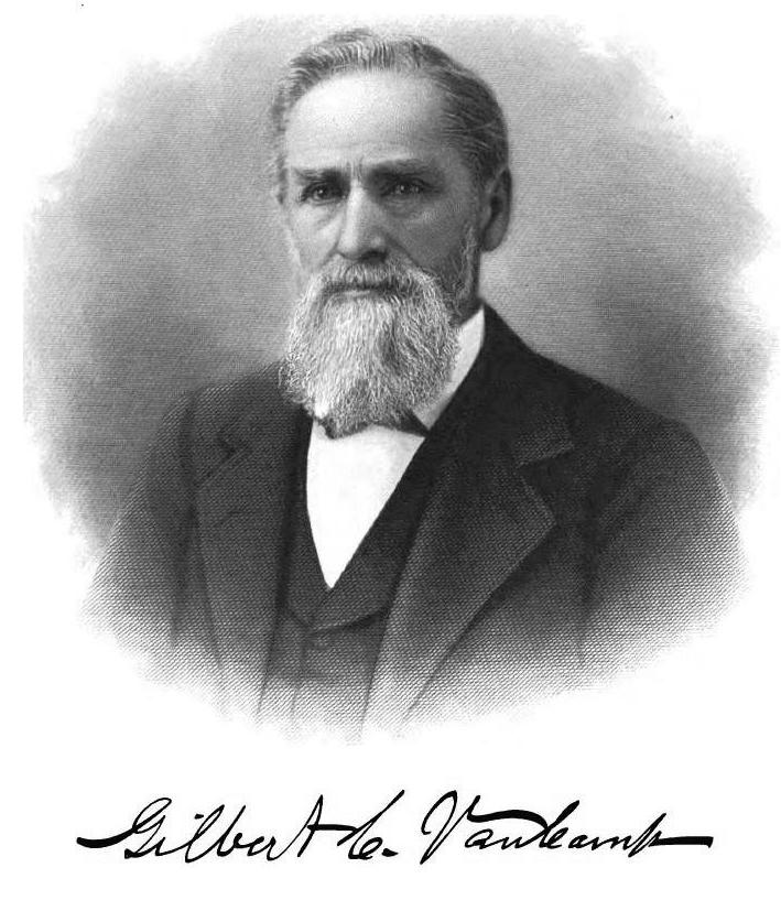 Engraving of Gilbert C. Van Camp with facsimile of signature.